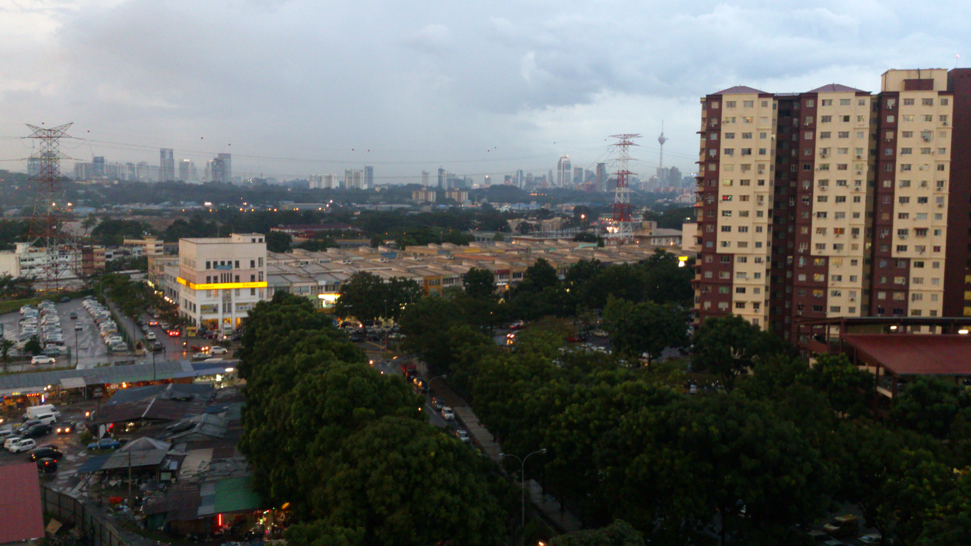 Bandar Sri Permaisuri view from the Sri Penara Apartment.